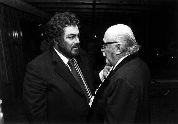 Luciano Pavarotti, left, chatting with Fort Lauderdale Symphony music director Emerson Buckley.